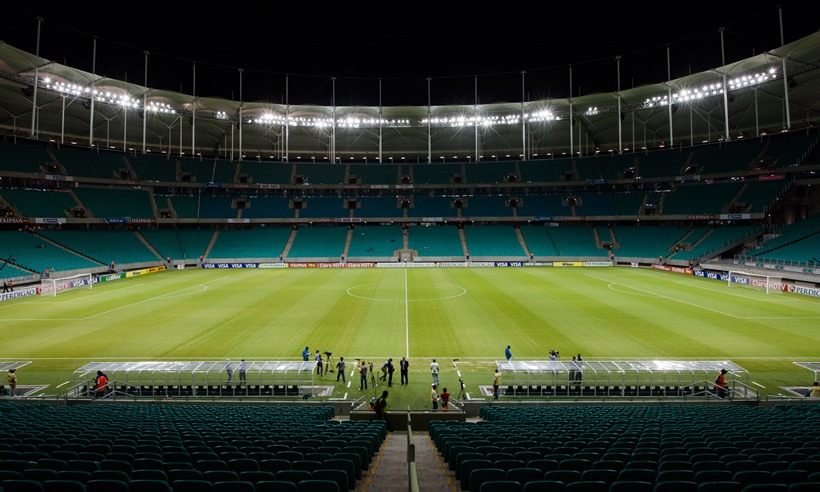 Internal view of Arena Fonte Nova, Salvador, Bahia.